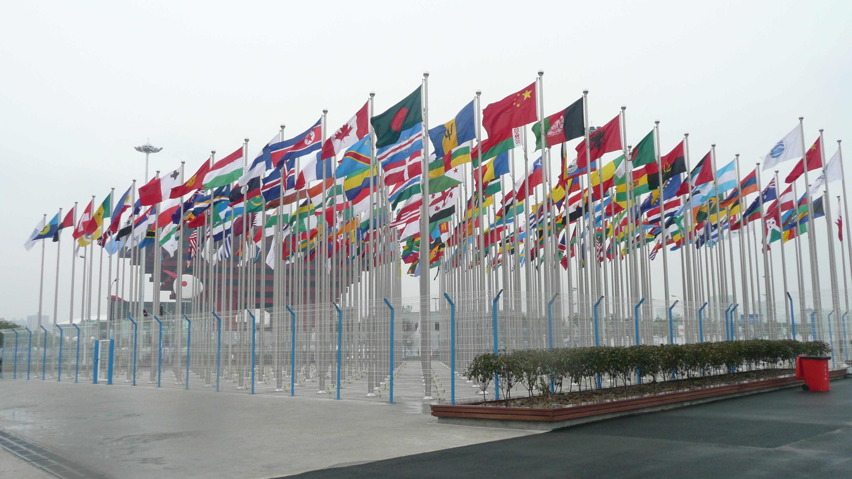 Flags of 189 nations and 57 international organizations along with the Bureau of International Exposition’s flag and the Expo Shanghai flag in the World Expo Park in Shanghai